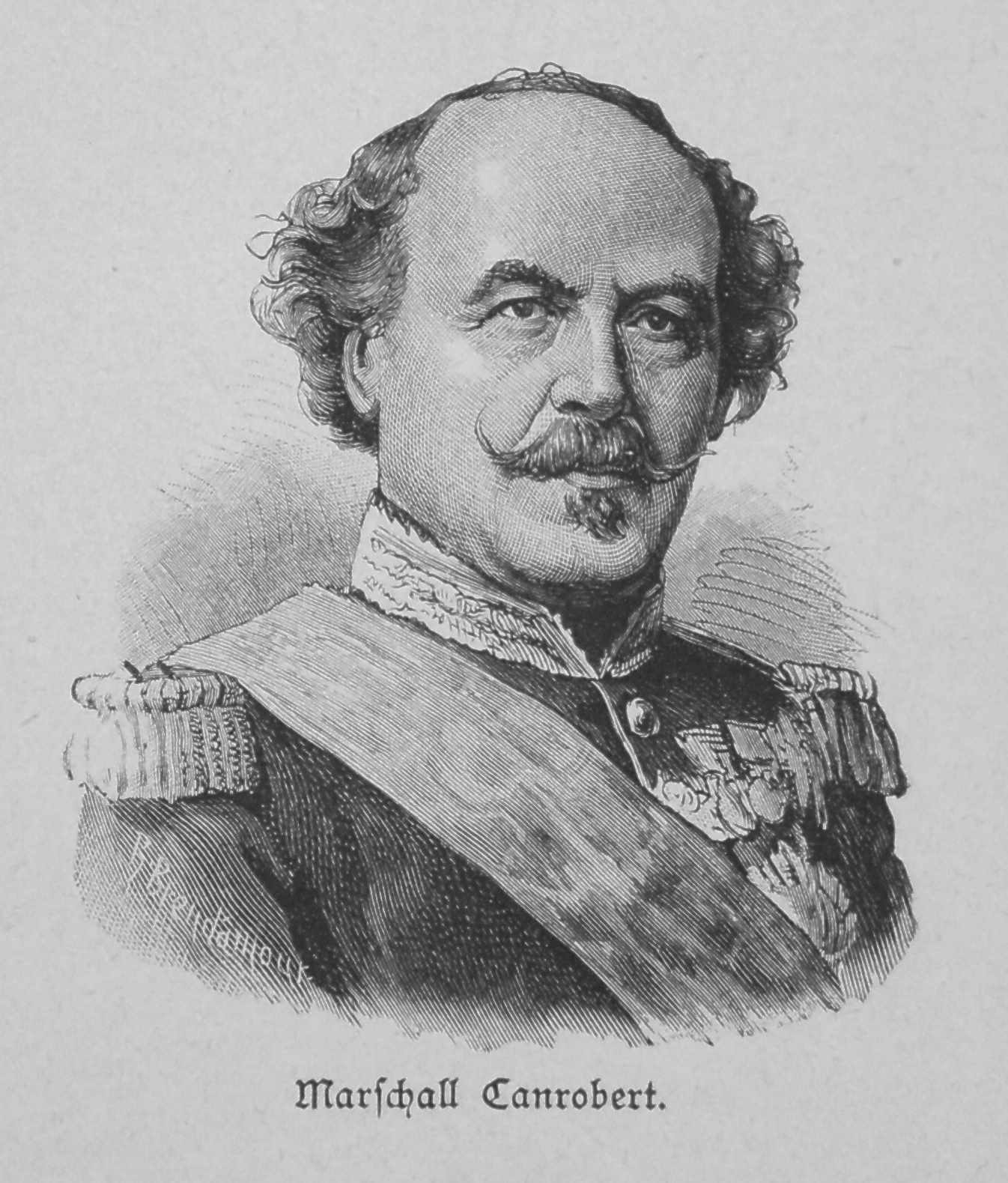 marshall Canrobert